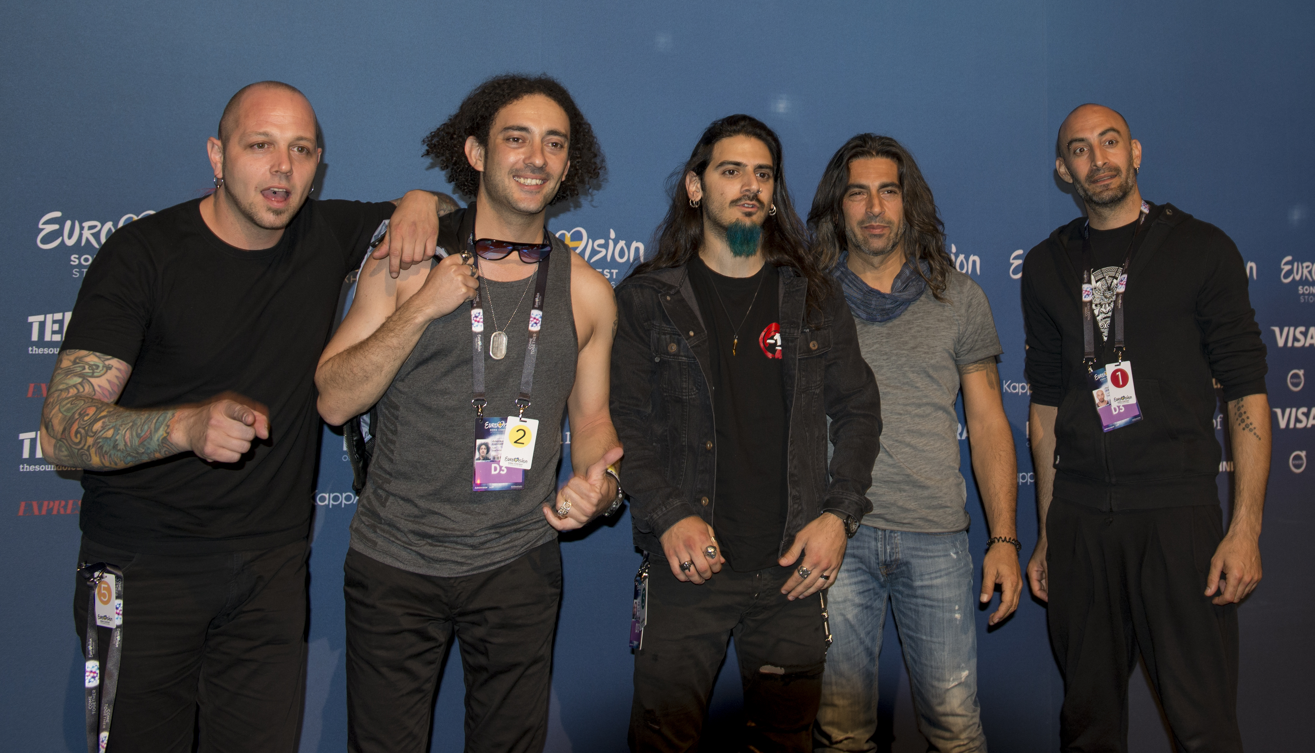 Minus One at a Meet & Greet during the Eurovision Song Contest 2016 in Stockholm. (Help translate this text)